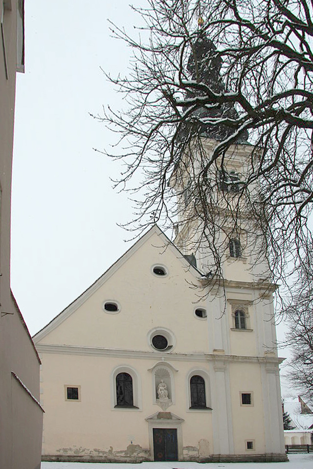 Westfassade der Frauenkirche